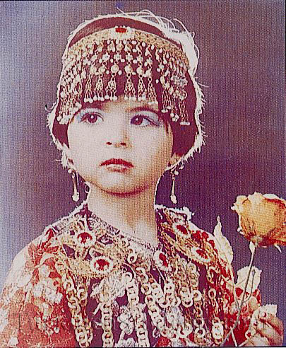 A Iraqi Turkmen girl